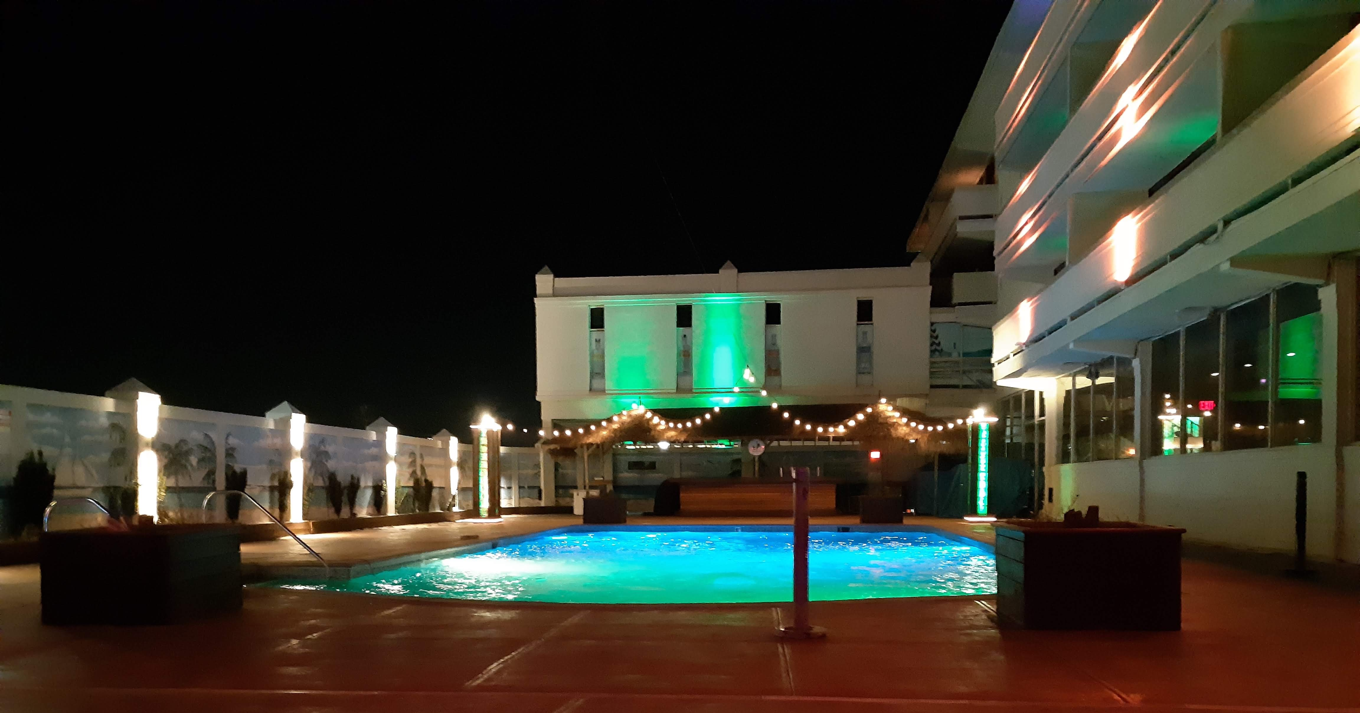 Outdoor pool at Paradise Nightclub